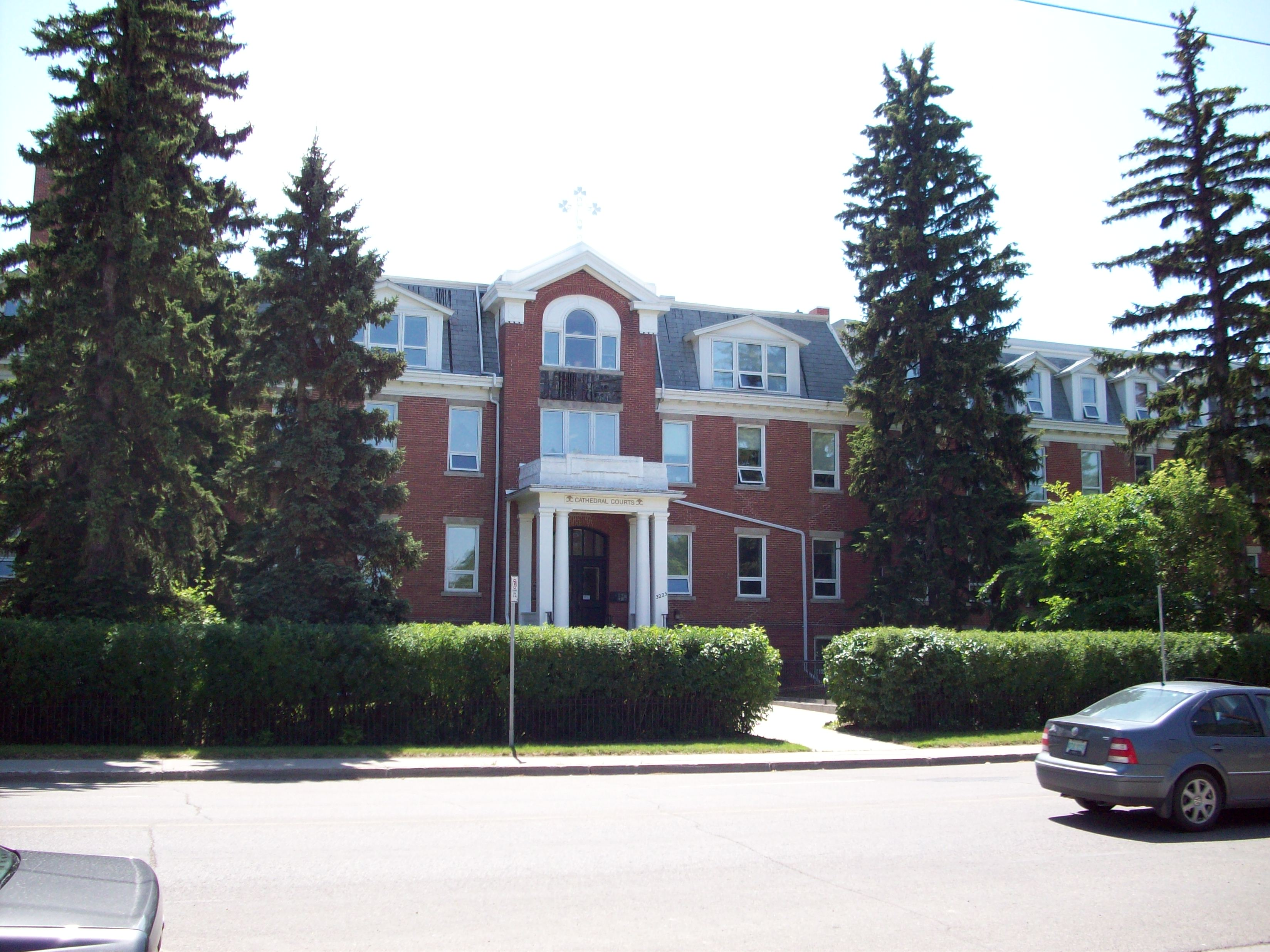 Sacred Heart Academy Removed from the following pages: Regina's historic buildings and precincts Regina --OrphanBot (talk) 06:45, 1 August 2008 (UTC)